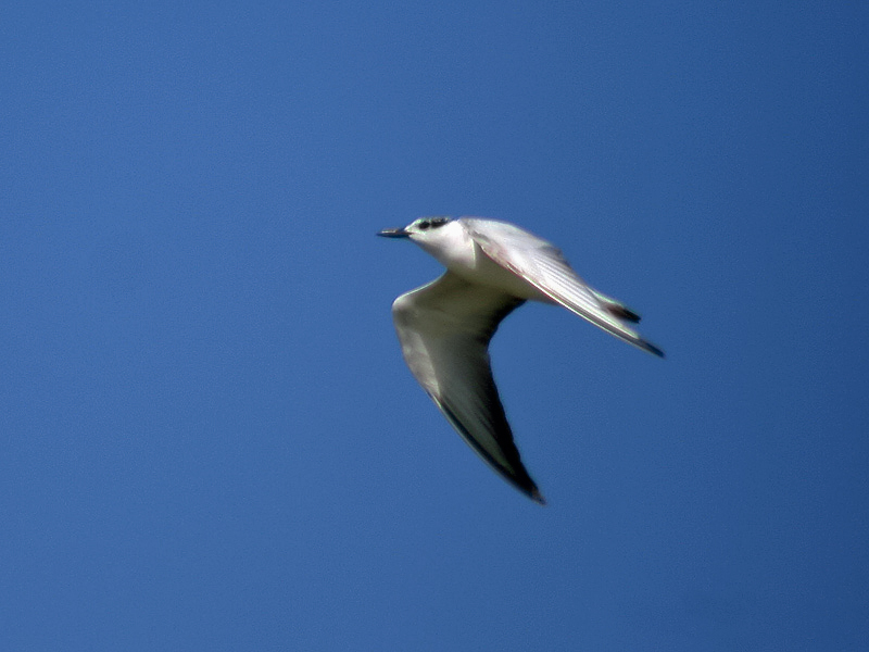 Whiskered Tern Chlidonias hybrida, first-winter plumage, in Chhilka, Orissa, India.